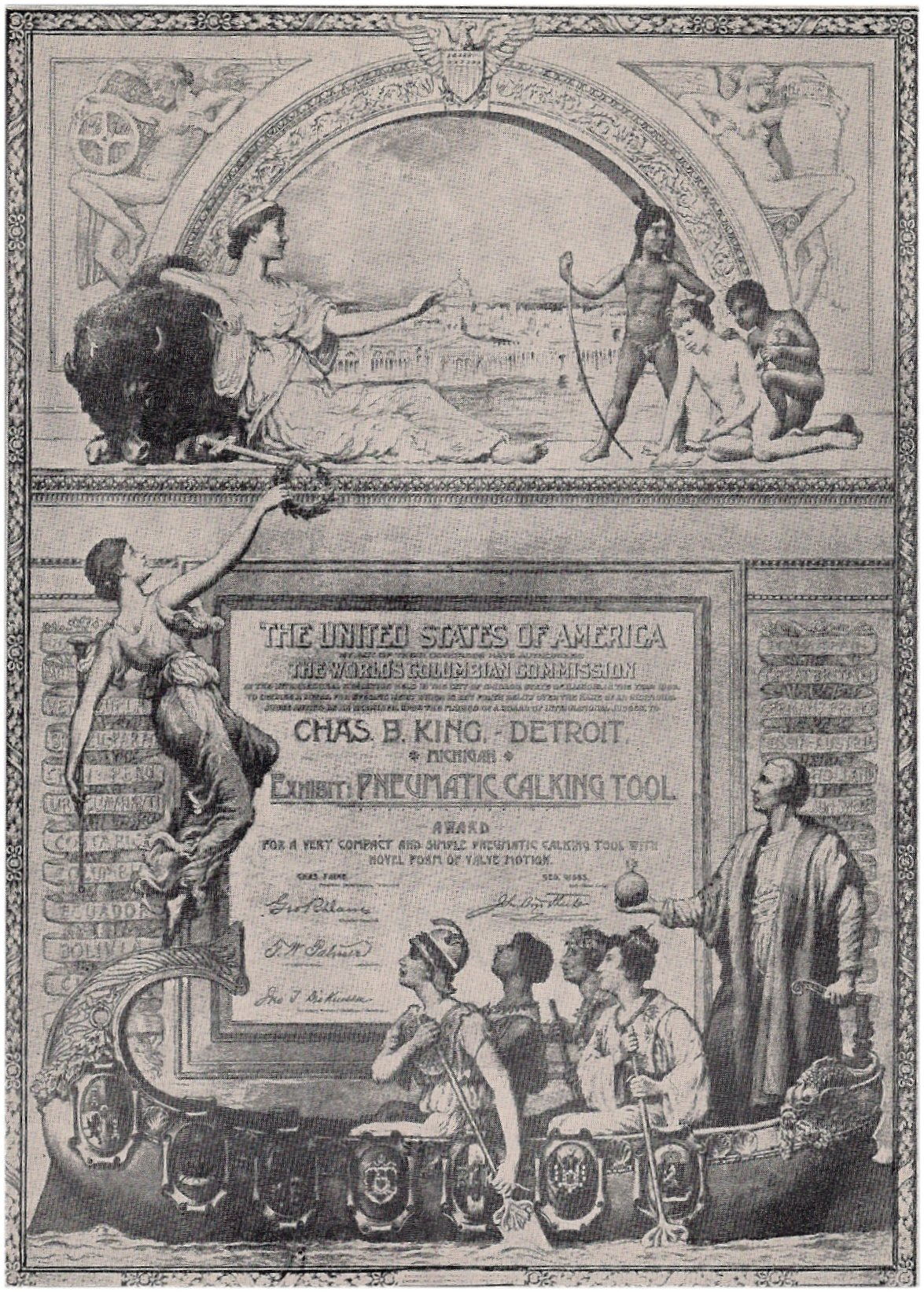 Diploma for pneumatic tool invention of Charles B. King